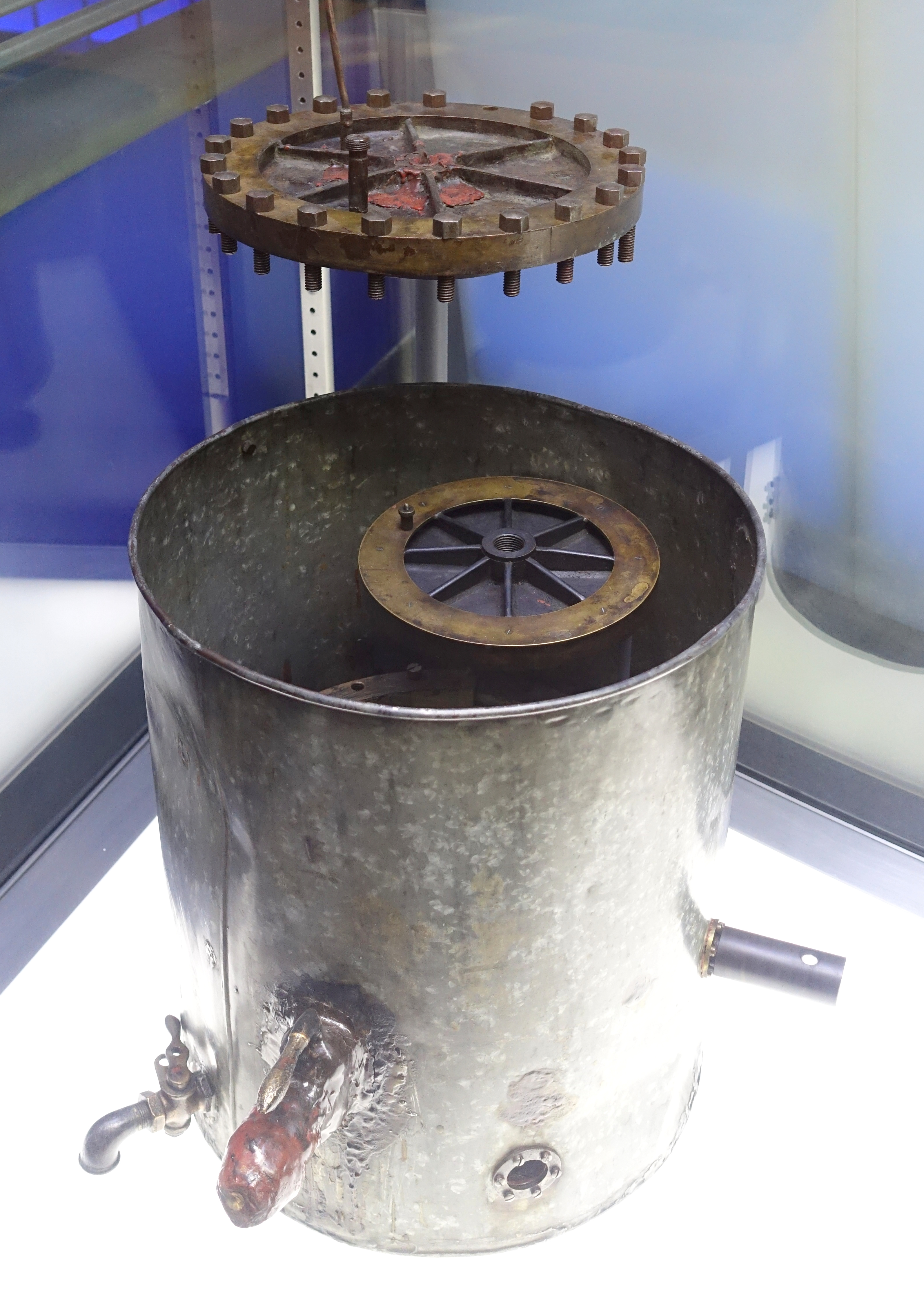 Exhibit in the Museum of Science and Industry, Chicago, Illinois, USA.